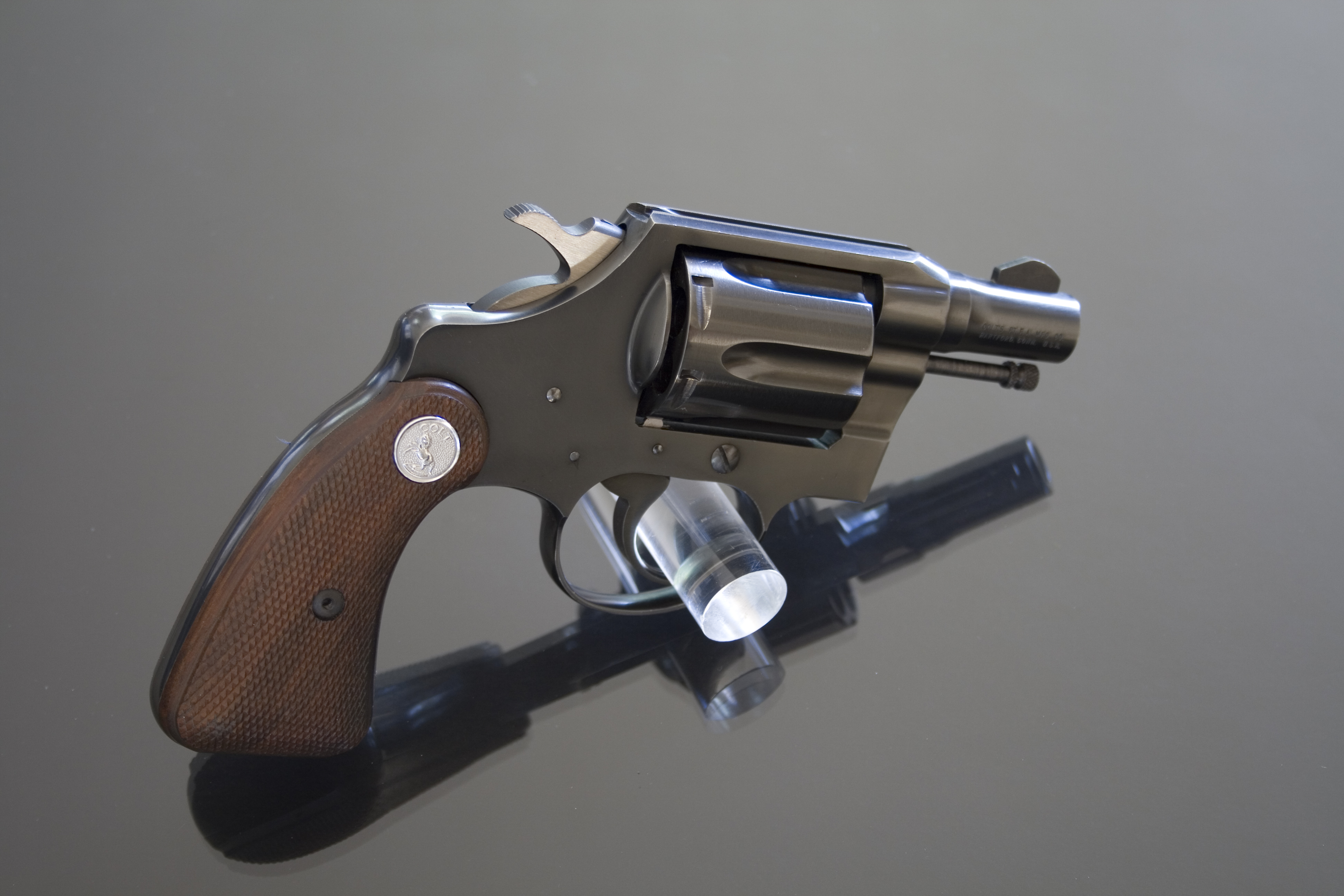 Colt Detective Special 1960